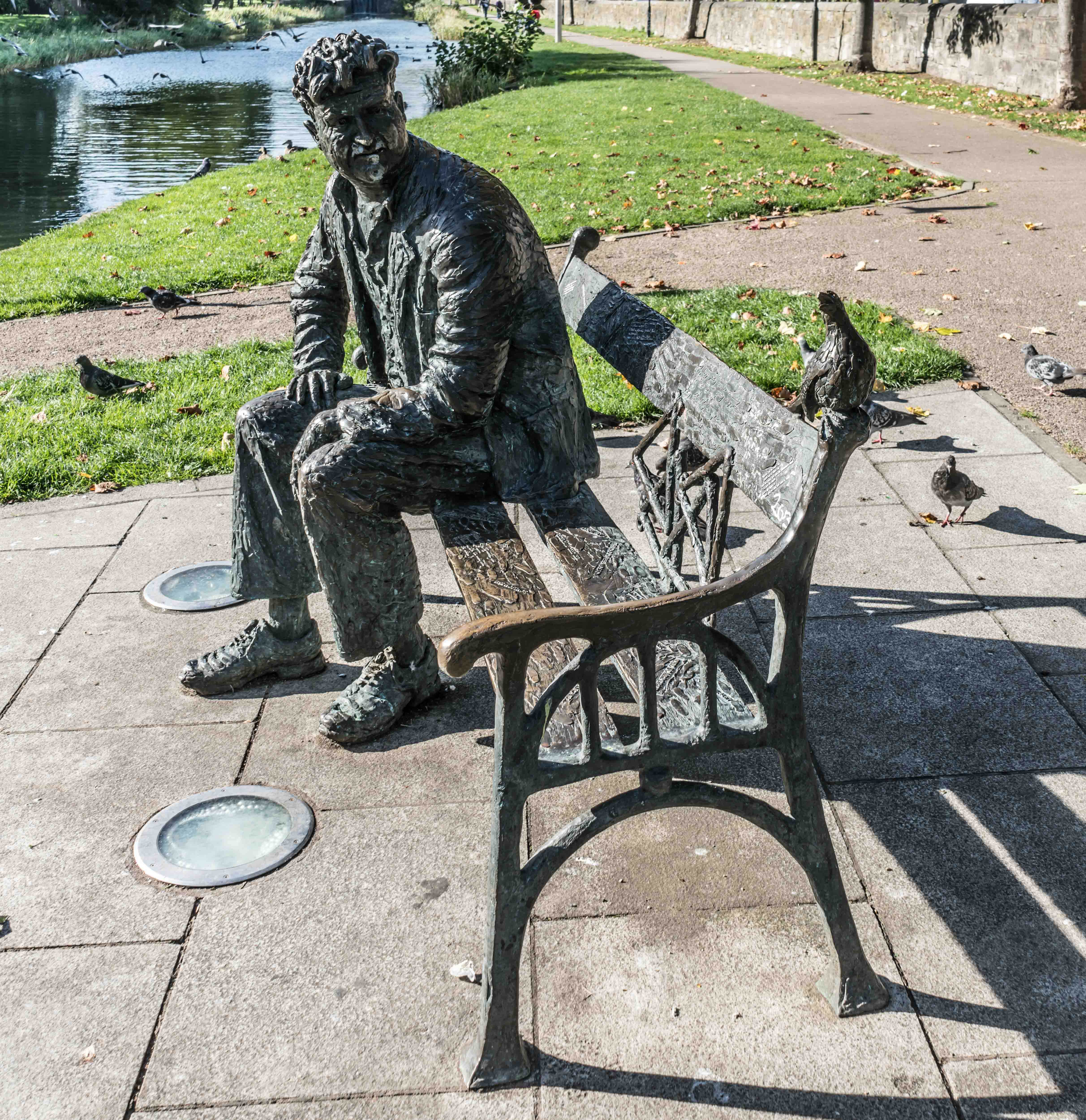 Memorial statue of Brendan Behan on the banks of the Royal Canal Dublin